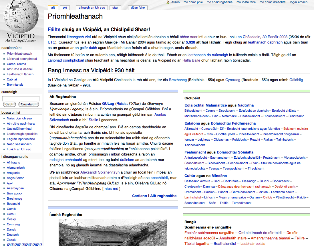 Screenshot of the Irish language Wikipedia's main page taken on January 29, 2008